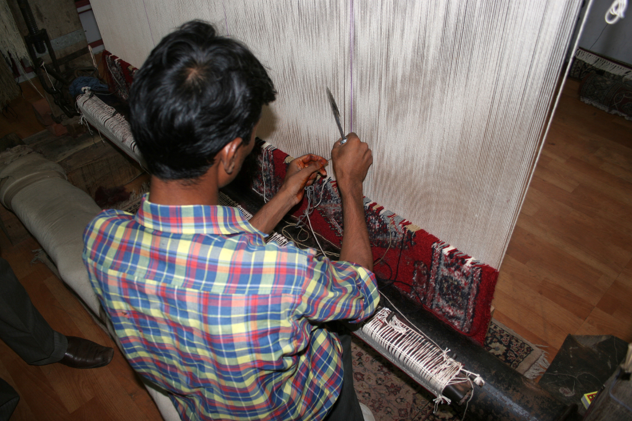 Agra artisan knitting a carpet. This craft, as many other, supposedly goes back to the masters building the Taj Mahal.